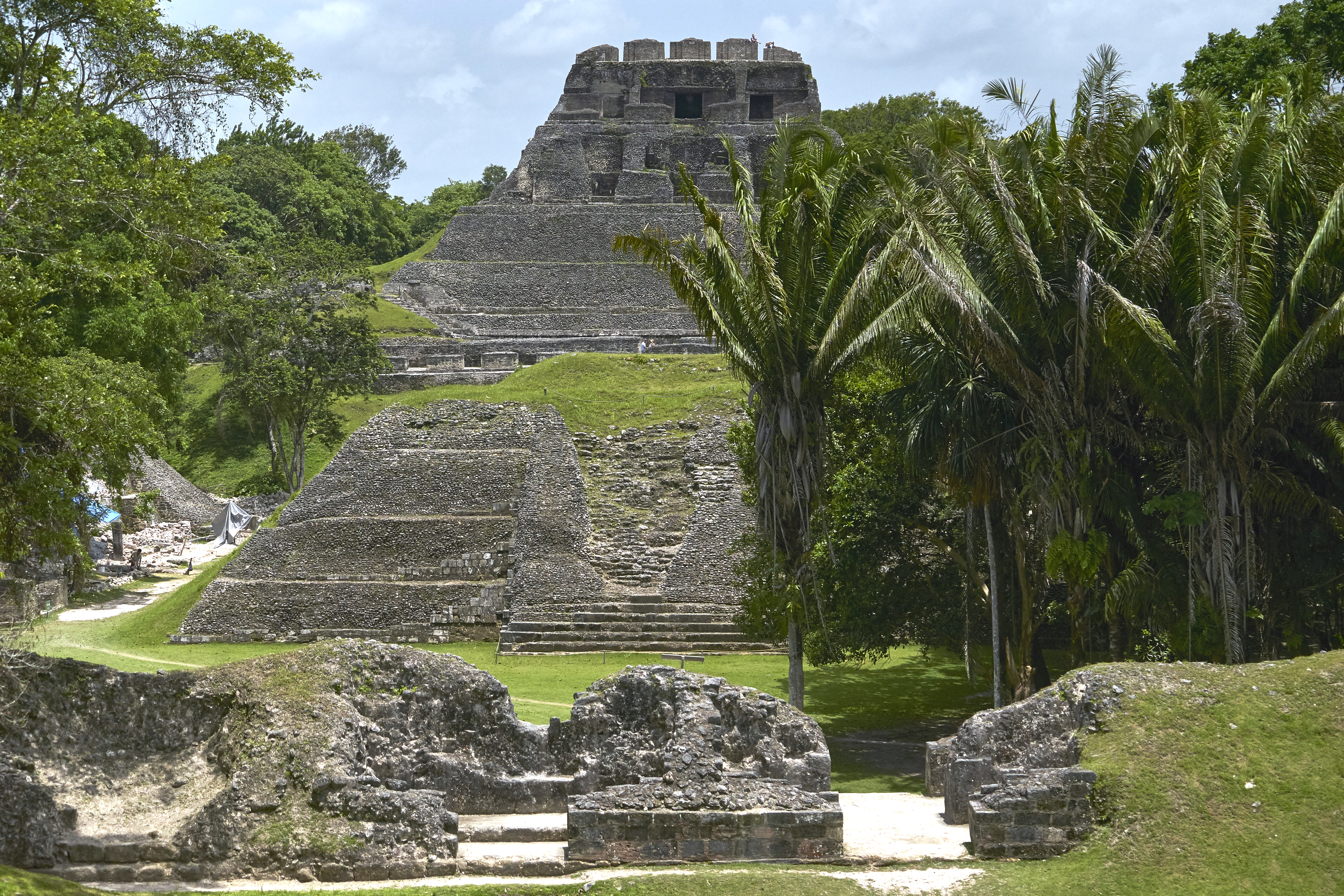 Details on top of Structure A-13 (foreground), Structure A-1 and El Castillo (background) at Xunantunich Archaelogical site, Belize The making of this document was supported by the Community-Budget of Wikimedia Germany.